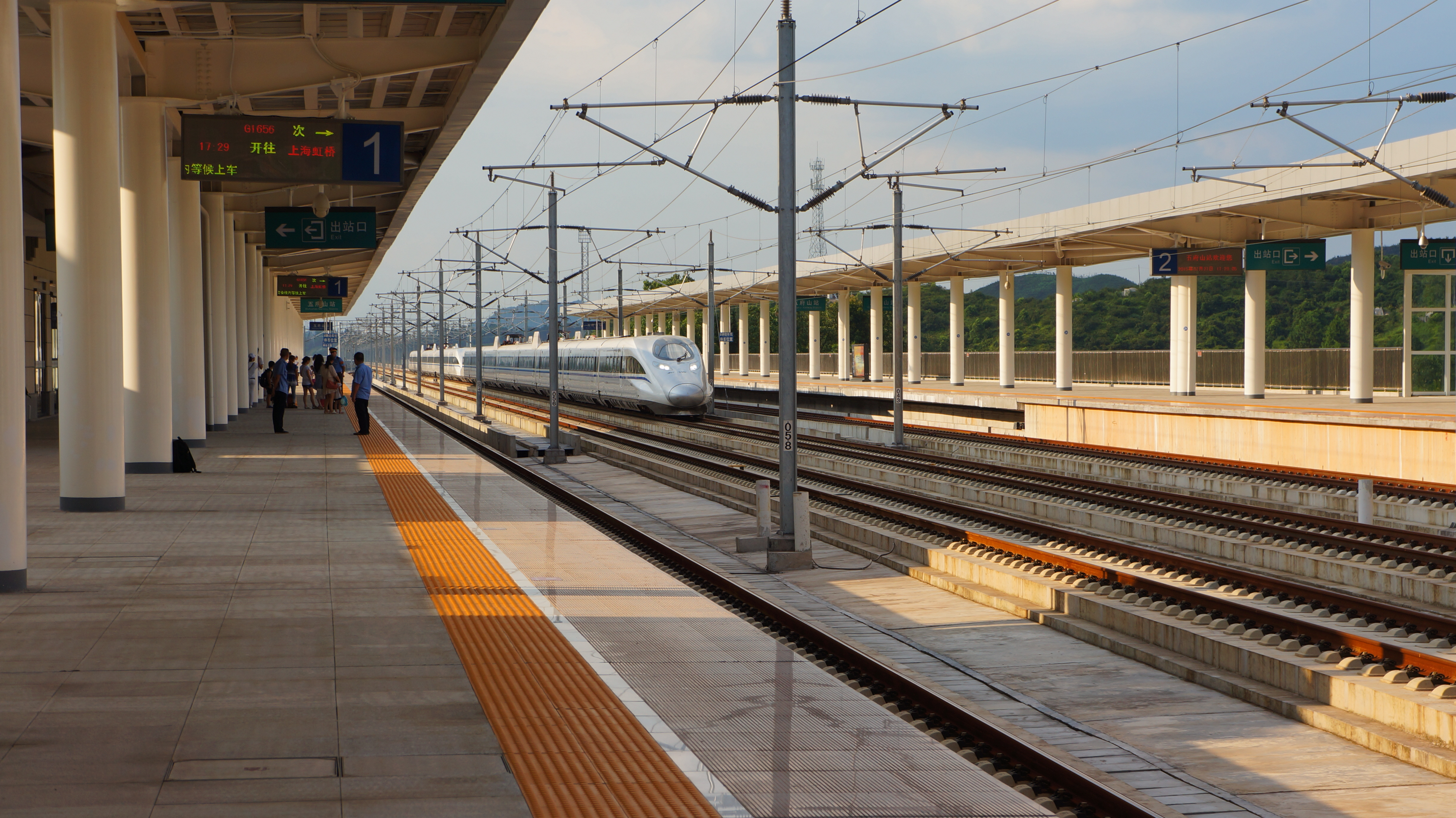 Platform 1 in Wufushan Railway Station, with a CRH380A Train passing through中文（中国大陆）: 五府山站一站台，此时有一列380A通过